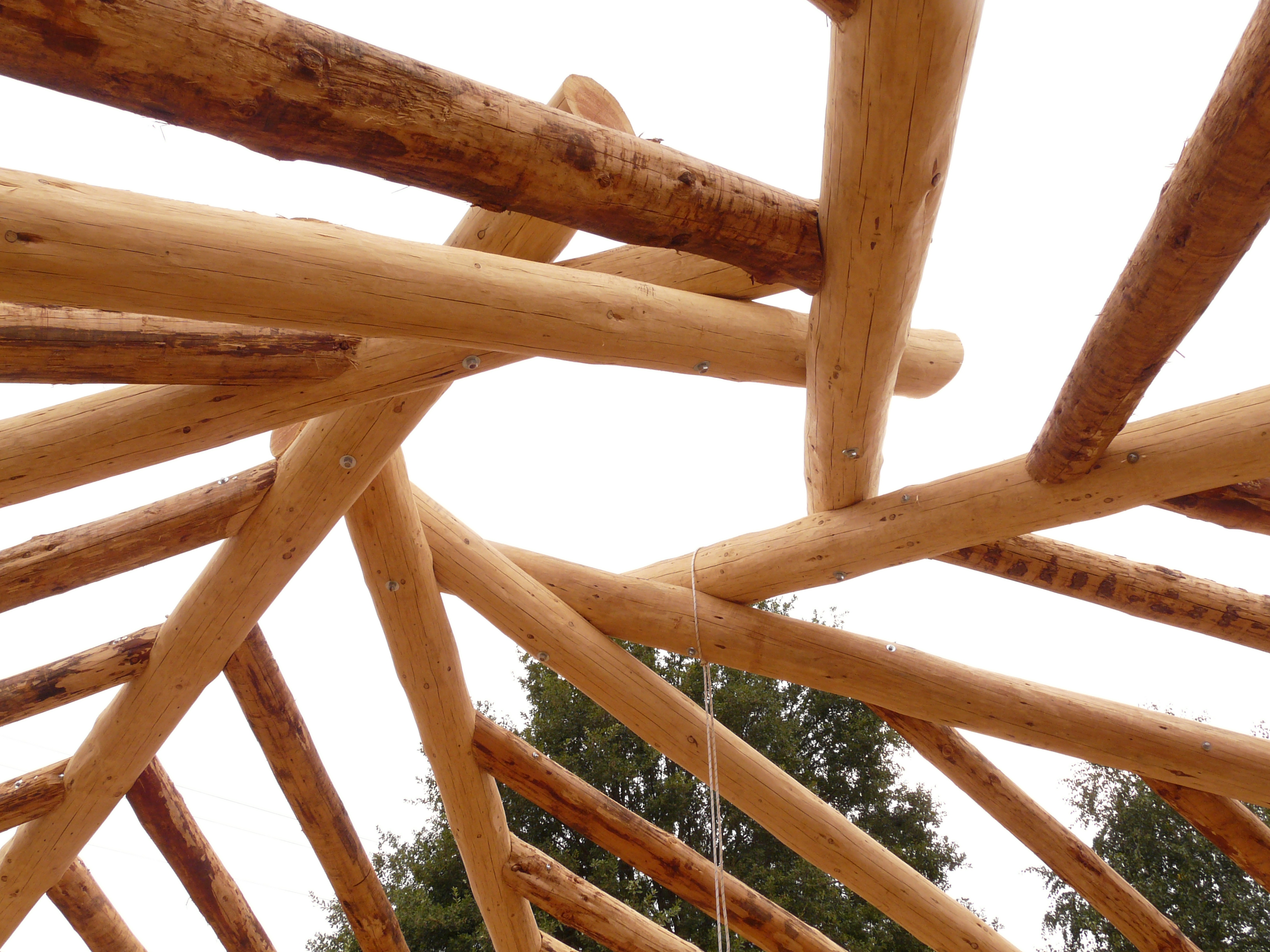 reciprocal roof made from douglas logs on tire foundations